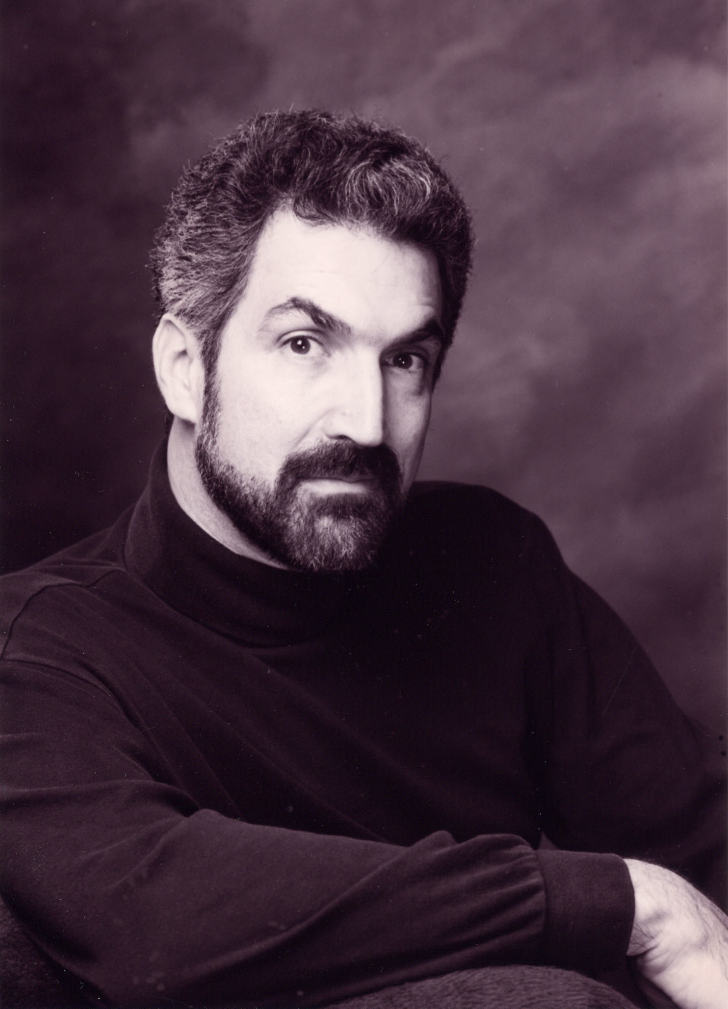 Picture of Daniel Pipes from his website. Also see this picture.